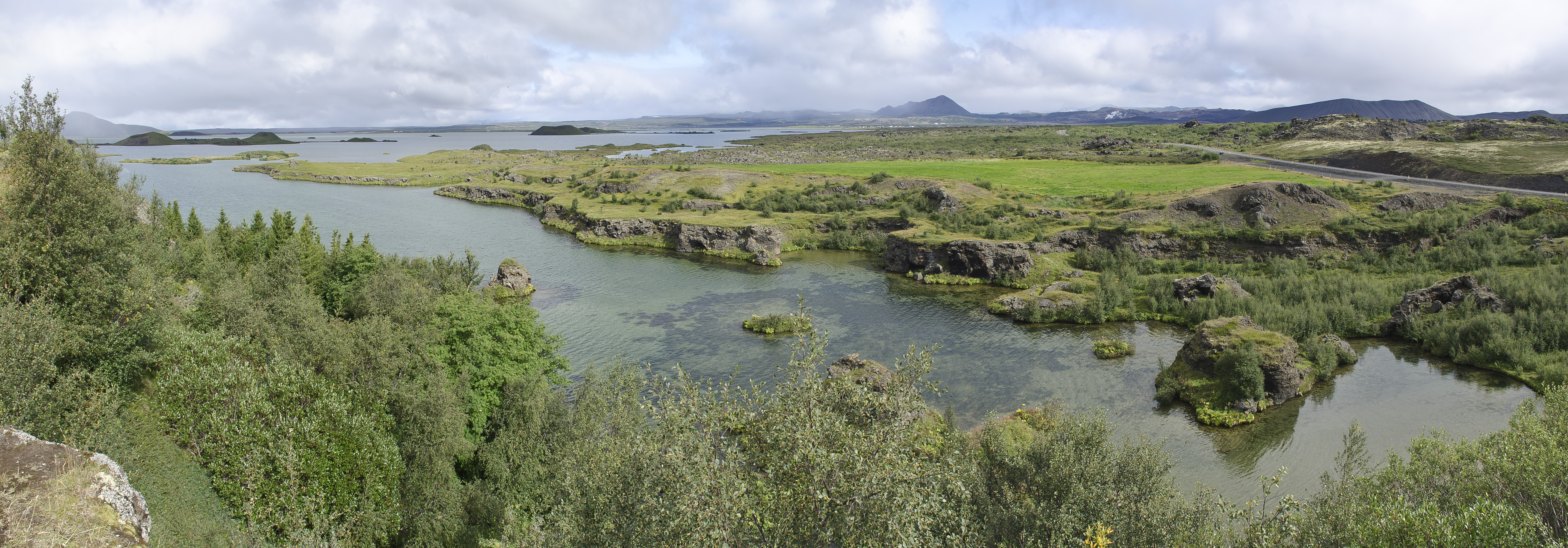 Mývatn near Höfði, Iceland NOTE: This image is a panorama consisting of 4 frames that were merged or stitched in Hugin. As a result, this image necessarily underwent some form of digital manipulation. These manipulations may include blending, blurring, cloning, and colour and perspective adjustments. As a result of these adjustments, the image content may be slightly different from reality at the points where multiple images were combined. This manipulation is often required due to lens, perspective, and parallax distortions. This image was created with Hugin.